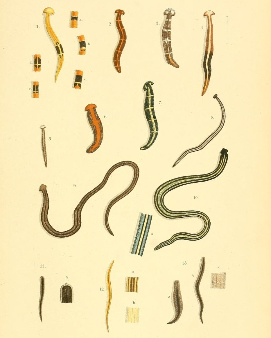 Fig. 1. Bipalium ephippium a, b, c, d, e: Various forms of the black pigment patch. Fig. 2. Bipalium sexcinctum Fig. 3. Bipalium quadricinclum Fig. 4. Bipalium nigrilumbe Fig. 5. Bipalium claviforme Fig. 6. Bipalium weberi Fig. 7. Bipalium kuhlii Fig. 8. Bipalium hasseltii Fig. 9. Bipalium gracile Fig. 10. Bipalium dubium a. Enlarged portion of the underside, about 2 times. Fig. 11. Geopluna nasuta a. Head enlarged Fig. 12. Rhynchodemus nematoides a. Detail of dorsal pattern, enlarged. b. Ventral surface, enlarged. Fig. 13. Geoplana sondäica a. in contracted state; b. During crawling c. Ventral surface, enlarged..